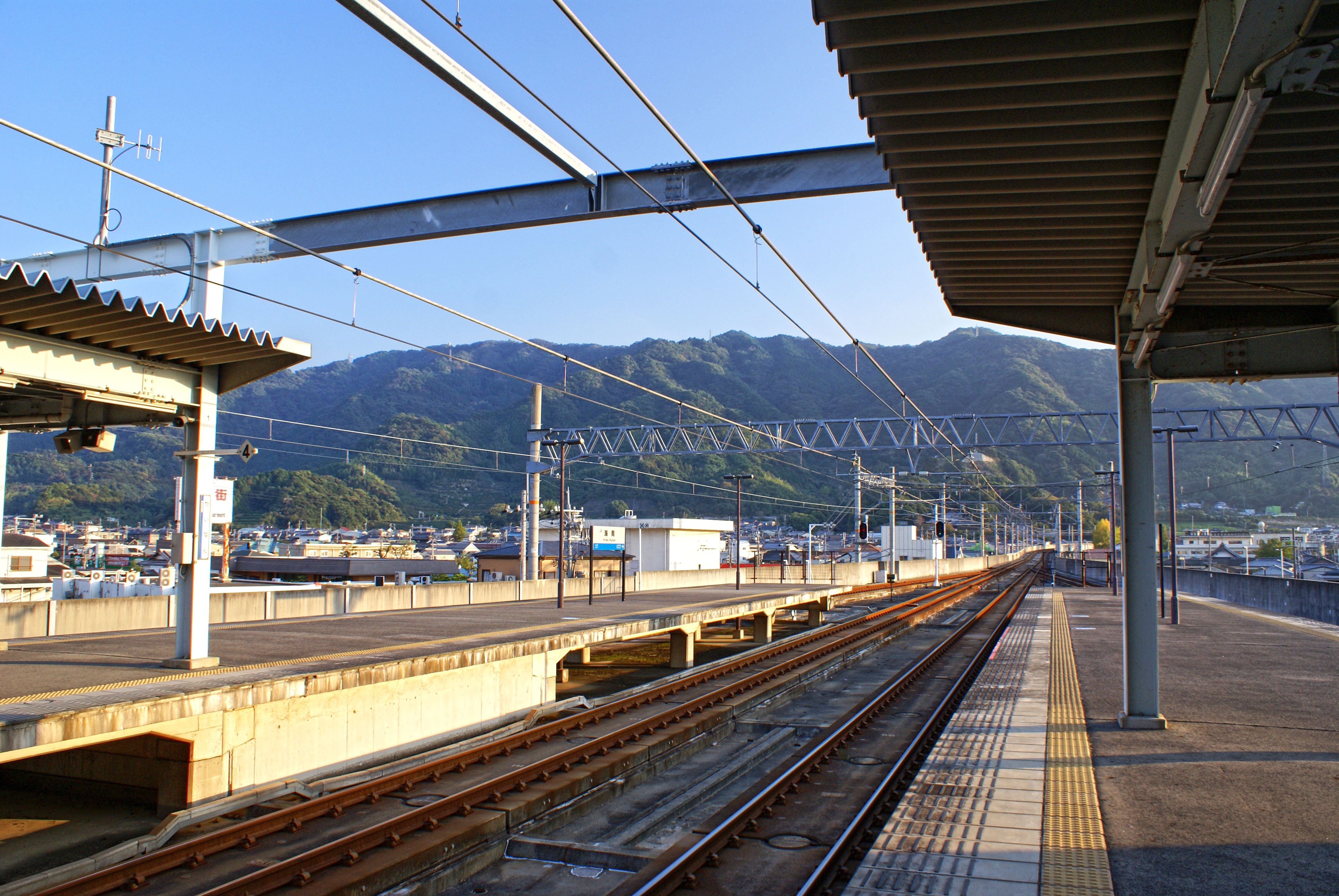 Kainan Station in Kainan, Wakayama prefecture, Japan